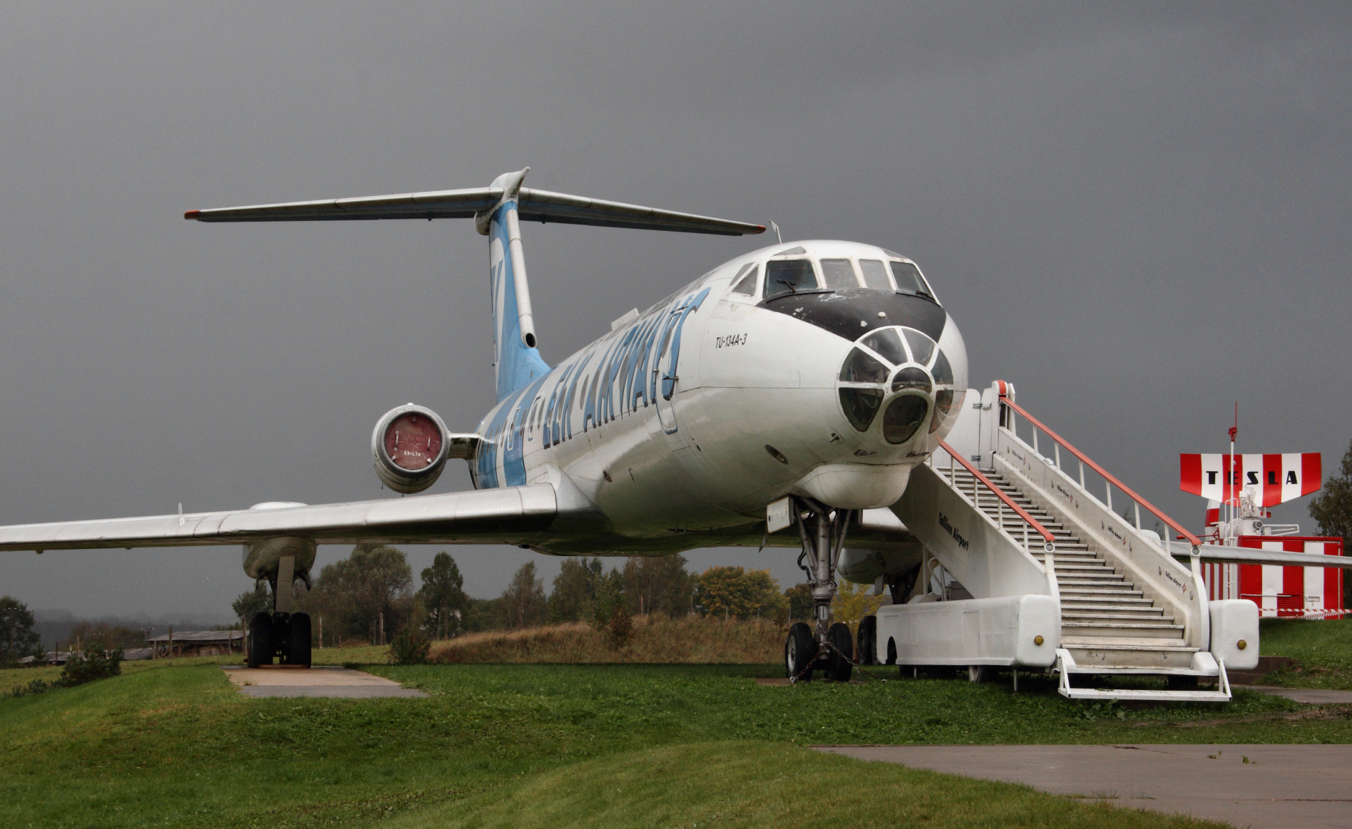 ELK Airways Tupolev TU-134A on display at Estonian Aviation Museum near Tartu, Estonia.